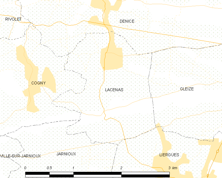 Map of French municipality